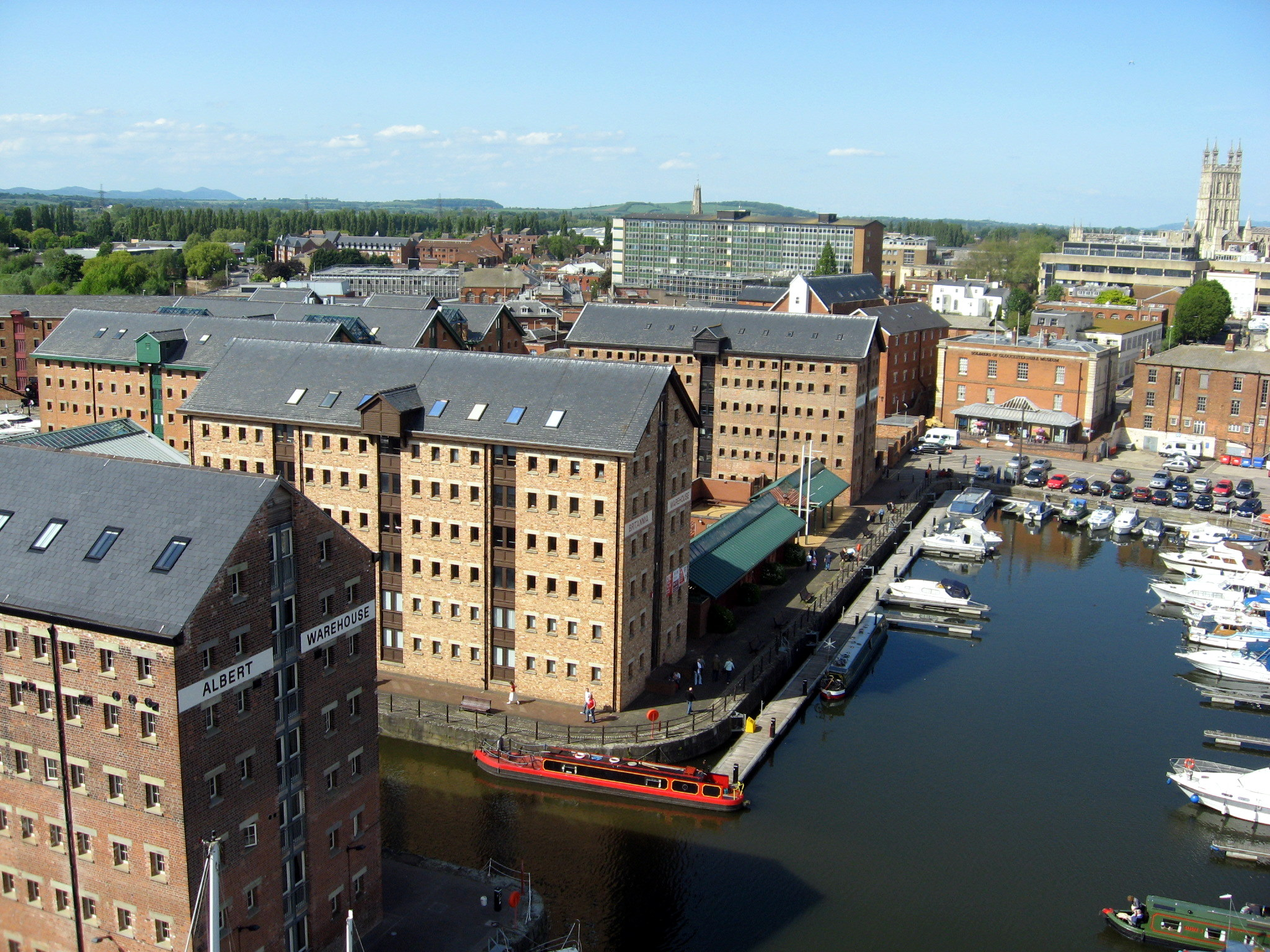 General view of Gloucester docks from a Ferris wheel